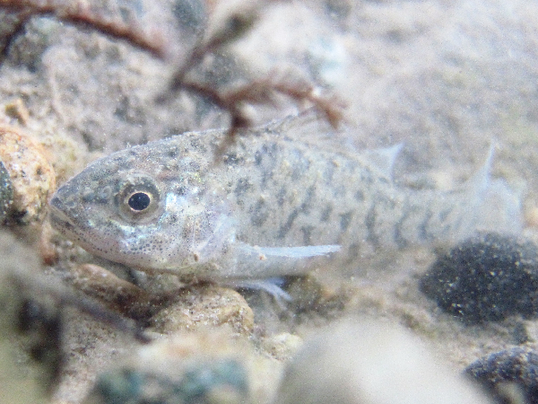 Juvenile Percichthys trucha collected in Río Manso, cuenca del río Puelo, Chile.